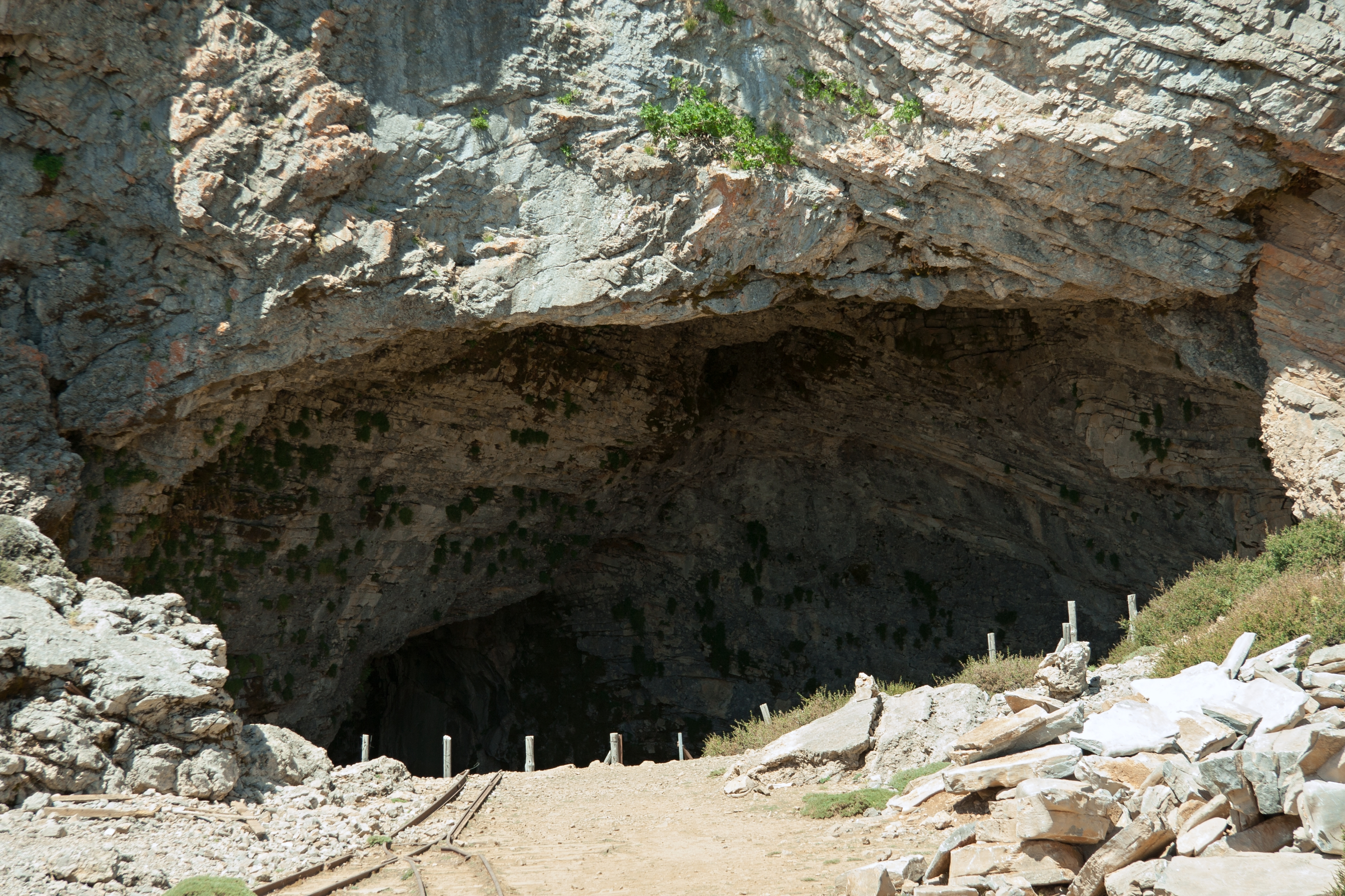 Entrance to Cave of Zeus on Ida. Crete.